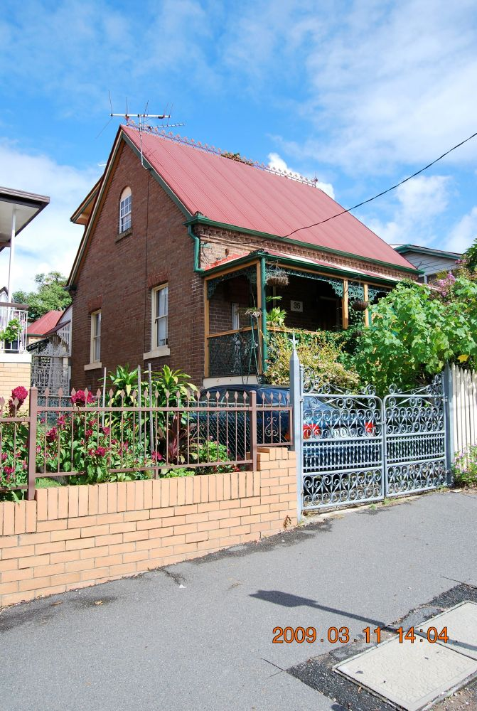 Doggetts Cottage (2009) from North